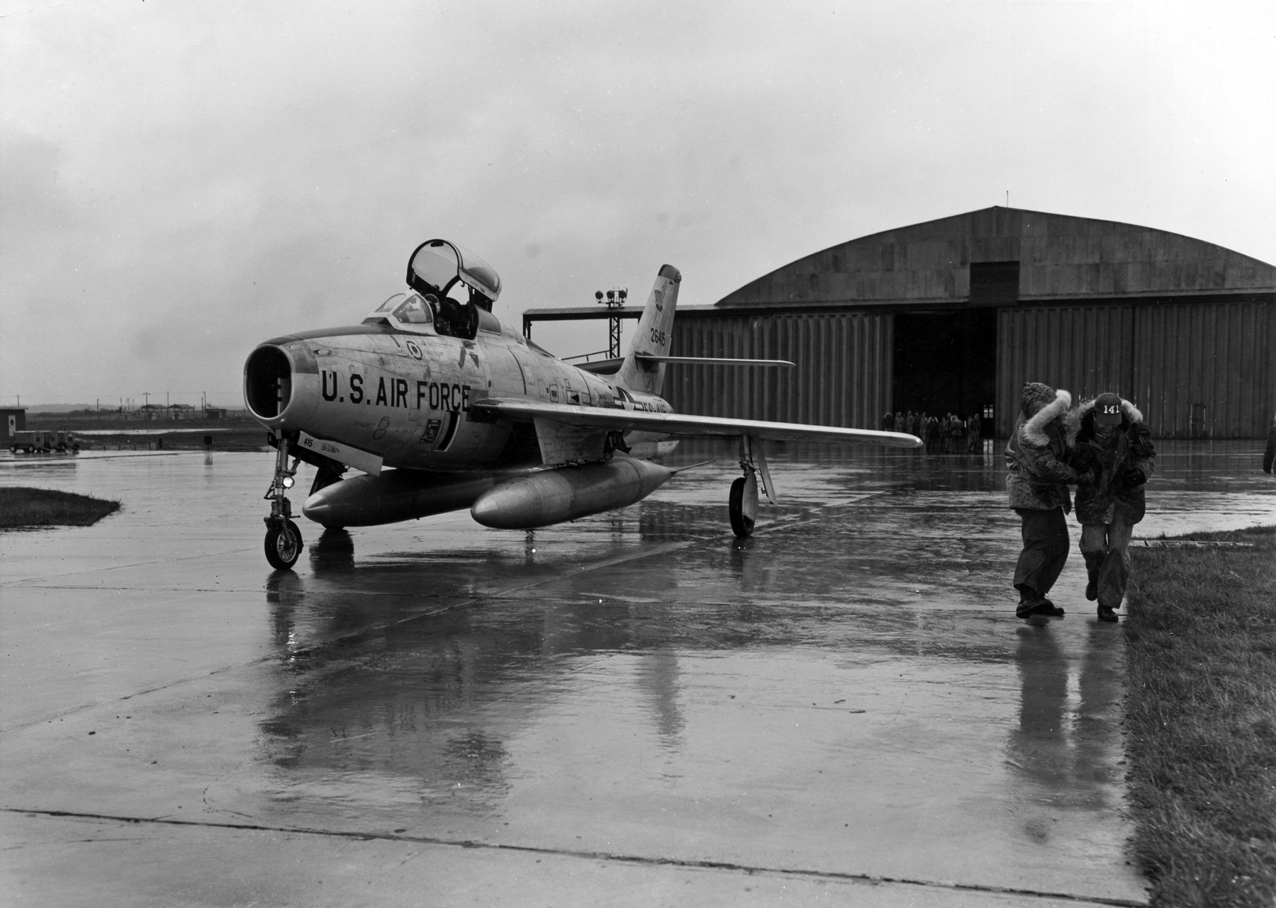 Arrival of a U.S. Air Force Republic F-84F-30-RE Thunderstreak (s/n 52-6415) of the 119th Tactical Fighter Squadron, 177th Tactical Fighter Group, New Jersey Air National Guard at Chaumont Air Base, France, as part of Operation Stair Step. More than 100,000 ANG and Air Force Reserve personnel, with planes and equipment, were deployed to Europe because of the Berlin crisis.